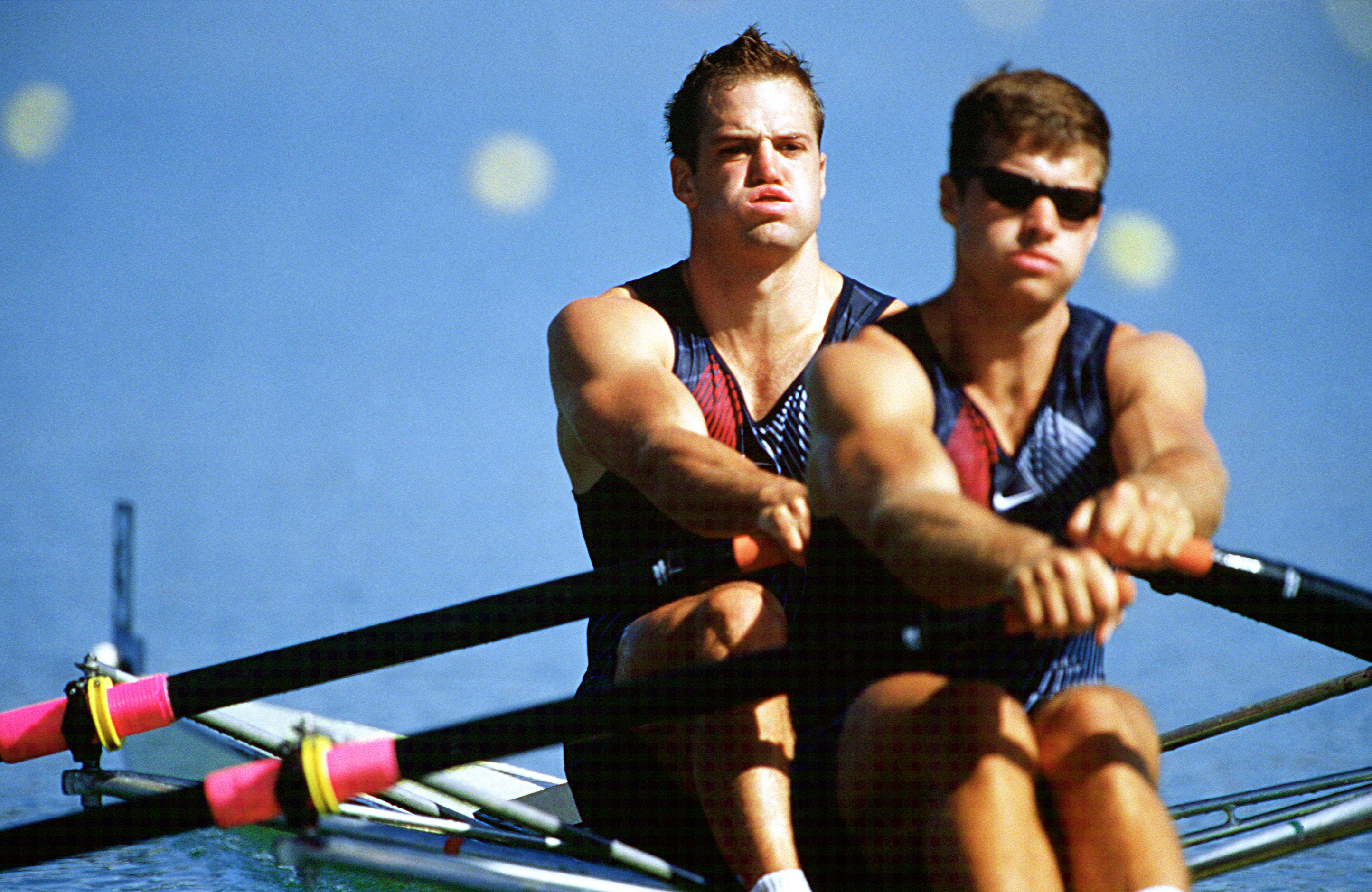 Straight on, medium shot of Henry Nuzum (Left) and Mike Ferry as they stroke their way toward a second place finish Tuesday, September 19th, 2000, during the semi finals or repechage of the Men's Double Sculls round in the Sydney Olympics. Nuzum and Ferry moved on to the next round of semi finals on Thursday, September 21st, 2000.